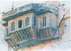 Picture taken from Kusyuva.